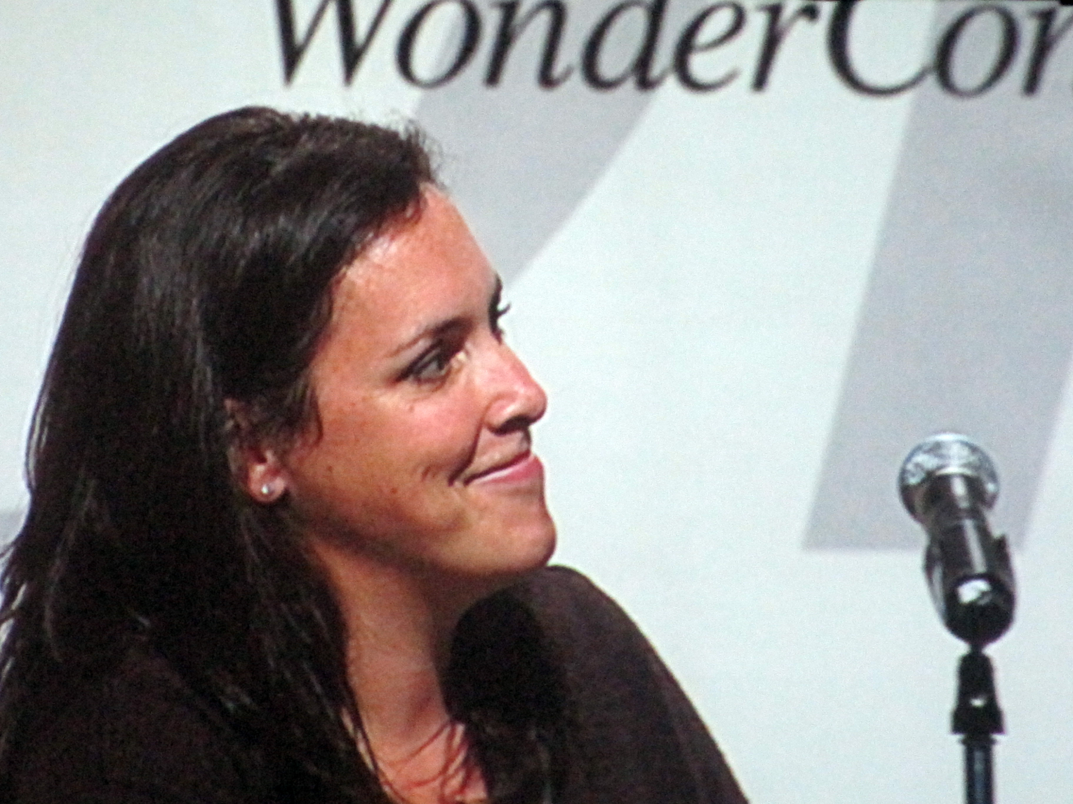 Producer Emma Thomas participating in the Inception panel at WonderCon 2010.